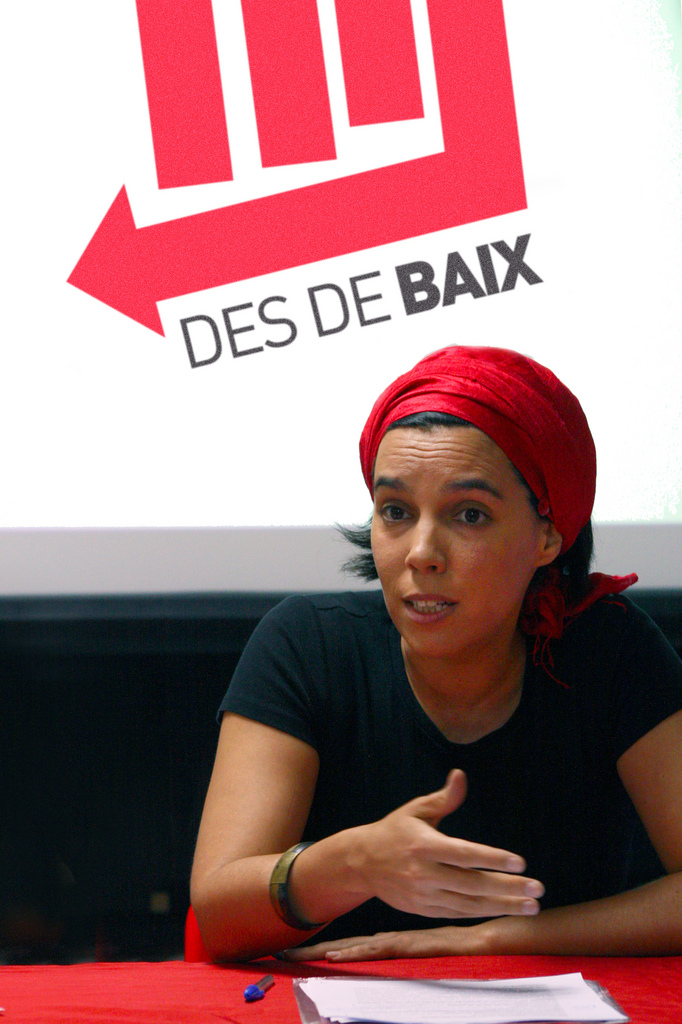 Esther Vivas